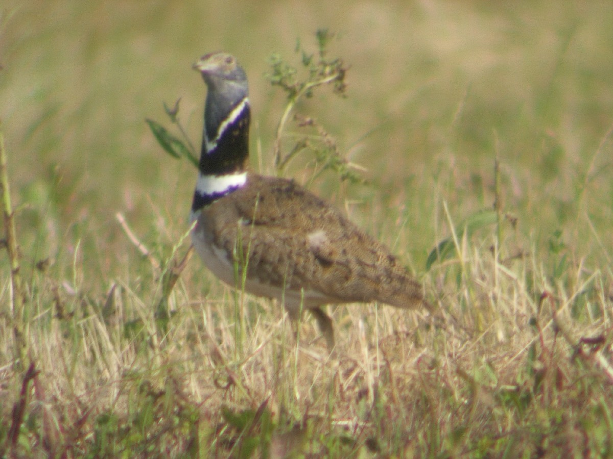 Tetrax tetrax male. Saint-Jean-de-Sauves, Vienne, France.